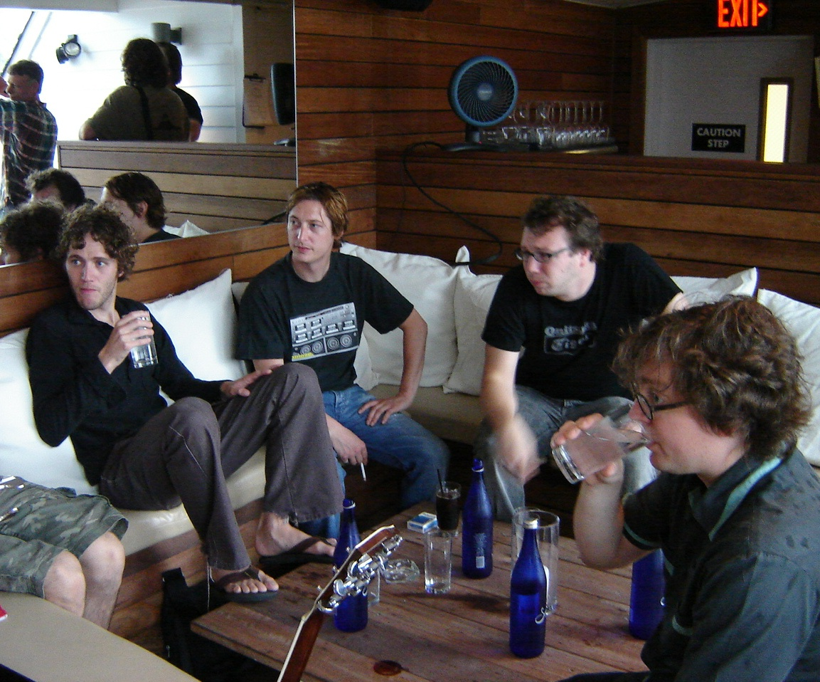 The band Gomez at the Metropolitan, Annapolis MD relaxing before a private WRNR show, on the rooftop of the Metropolitan restaurant, in Annapolis.....